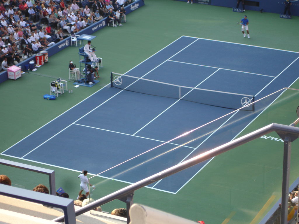 US Open 2011 Final Novak Đoković vs Rafael Nadal